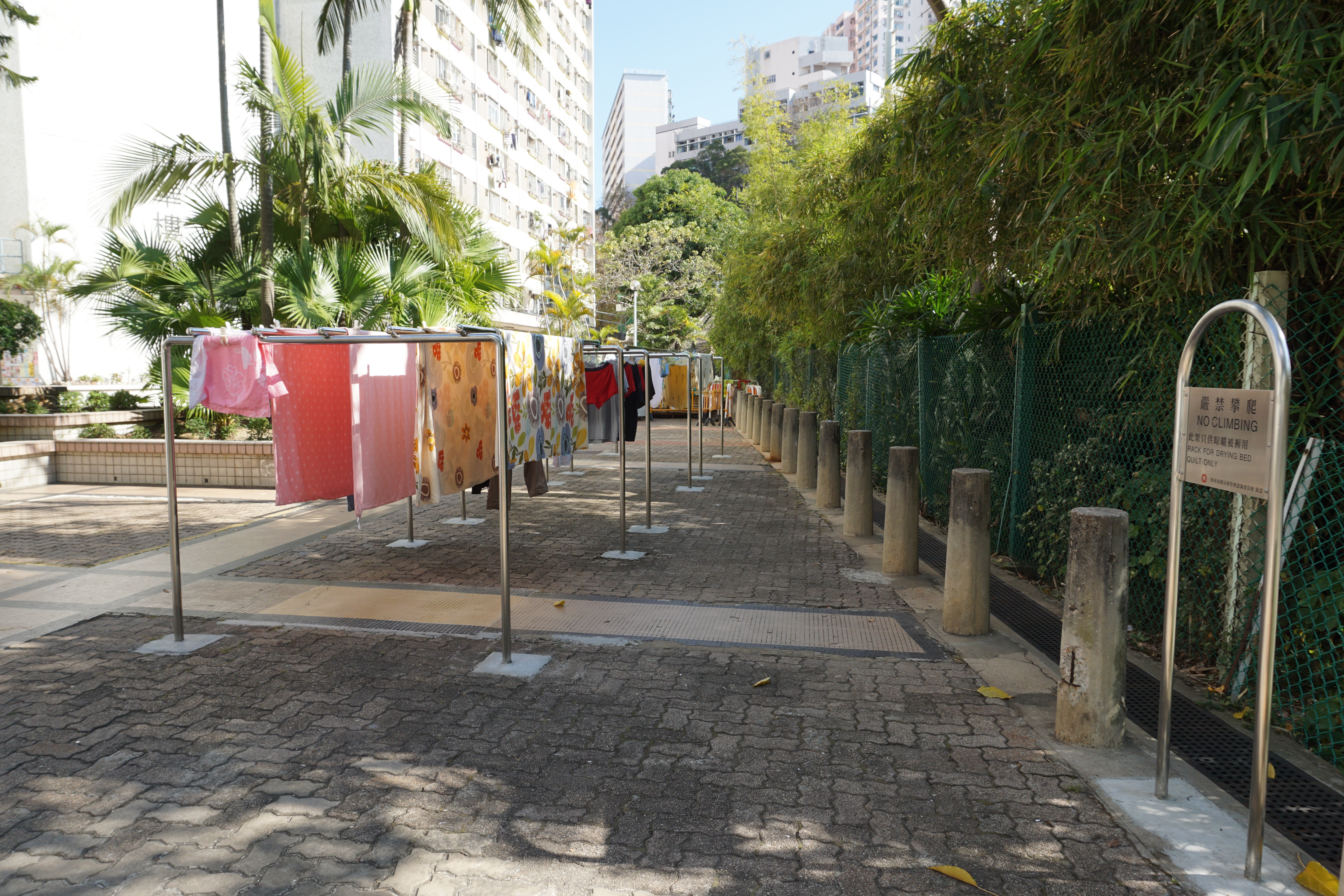 Lok Wah South Estate in Nagu Tau Kok, Hong Kong.